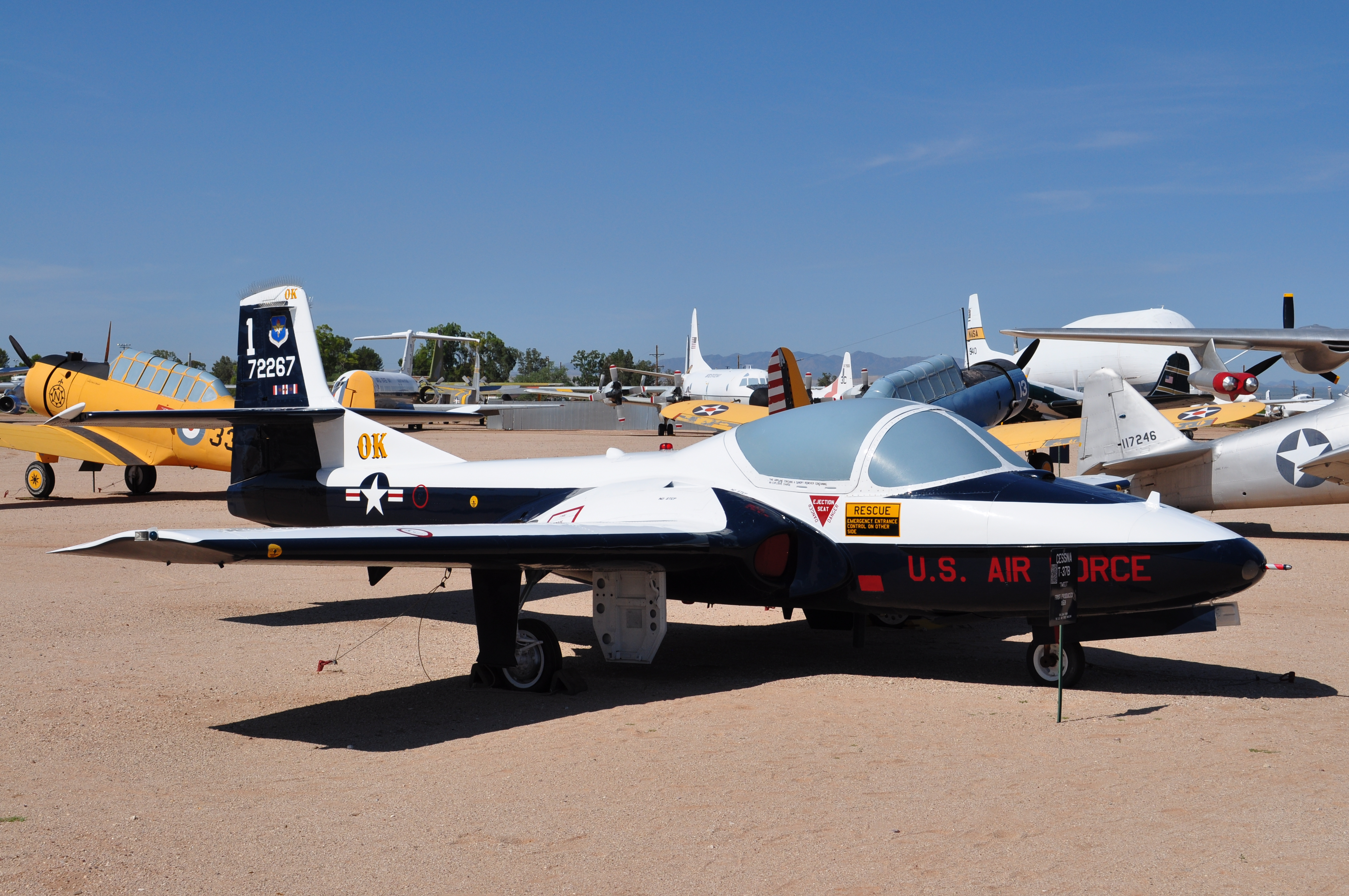 71st Flying Training Wing, Vance AFB, Oklahoma, 1989 USAF PIMA